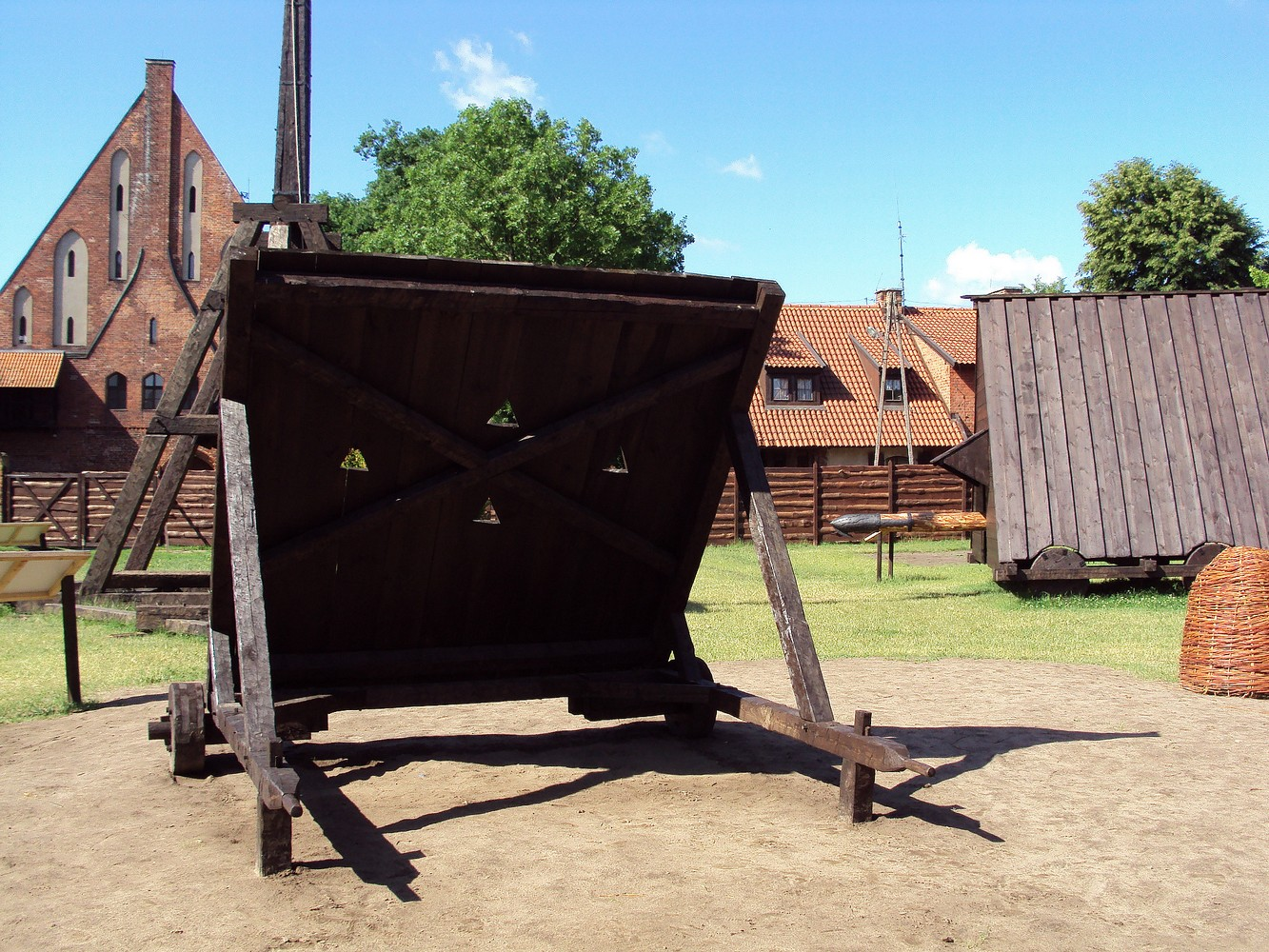 The reconstruction of the exhibition in Malbork (Poland) siege engines.